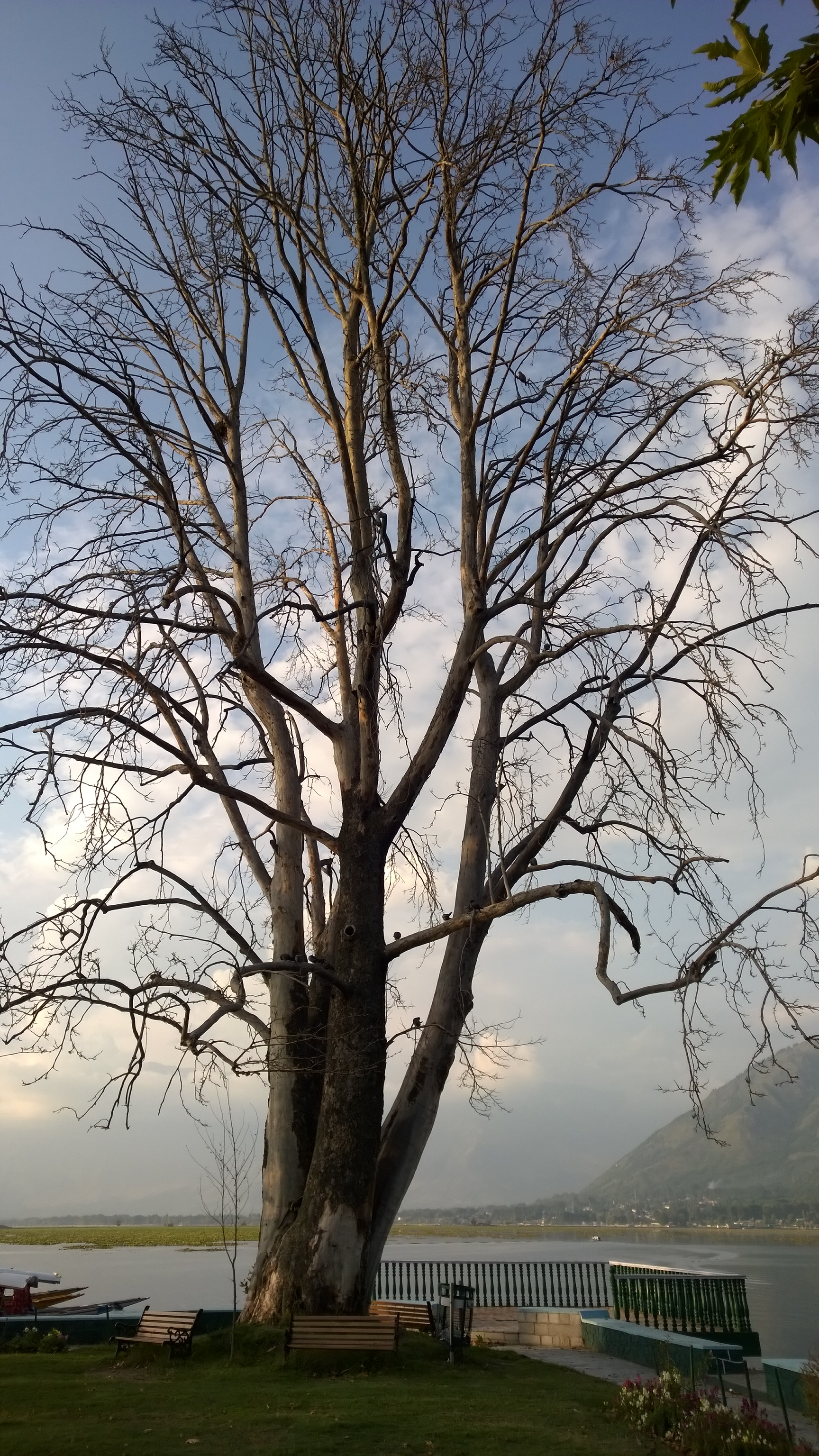 Recent Photograph of 1 of the Char Chinar Tree